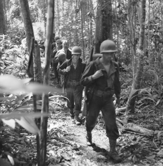 WANIGELA, NEW GUINEA. 1942-10-15. AMERICAN TROOPS OF 128TH INFANTRY REGIMENT, 32ND UNITED STATES DIVISION, ON THE FIRST STAGE OF THE BATTLE OF THE BEACHES WHICH BEGAN ON 1942-11-19. THE JAPANESE RESISTANCE CEASED ON 1943-01-22 IN THE SANANANDA, GONA, CAPE ENDAIADERE AND BUNA AREAS.